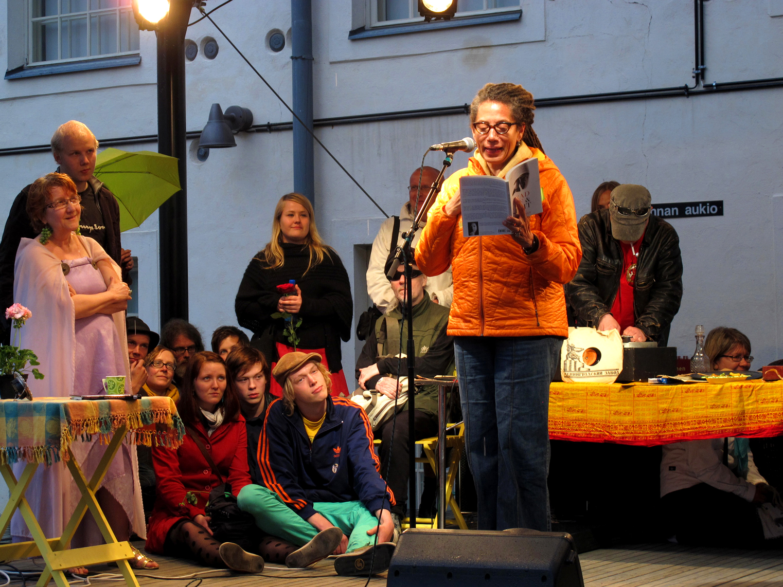 American poet Nikky Finney reading a poem of her poetry book Head Off & Split at Annikki Poetry Festival in Tampere Finland on June 9th 2012. This was her first reading in Europe.